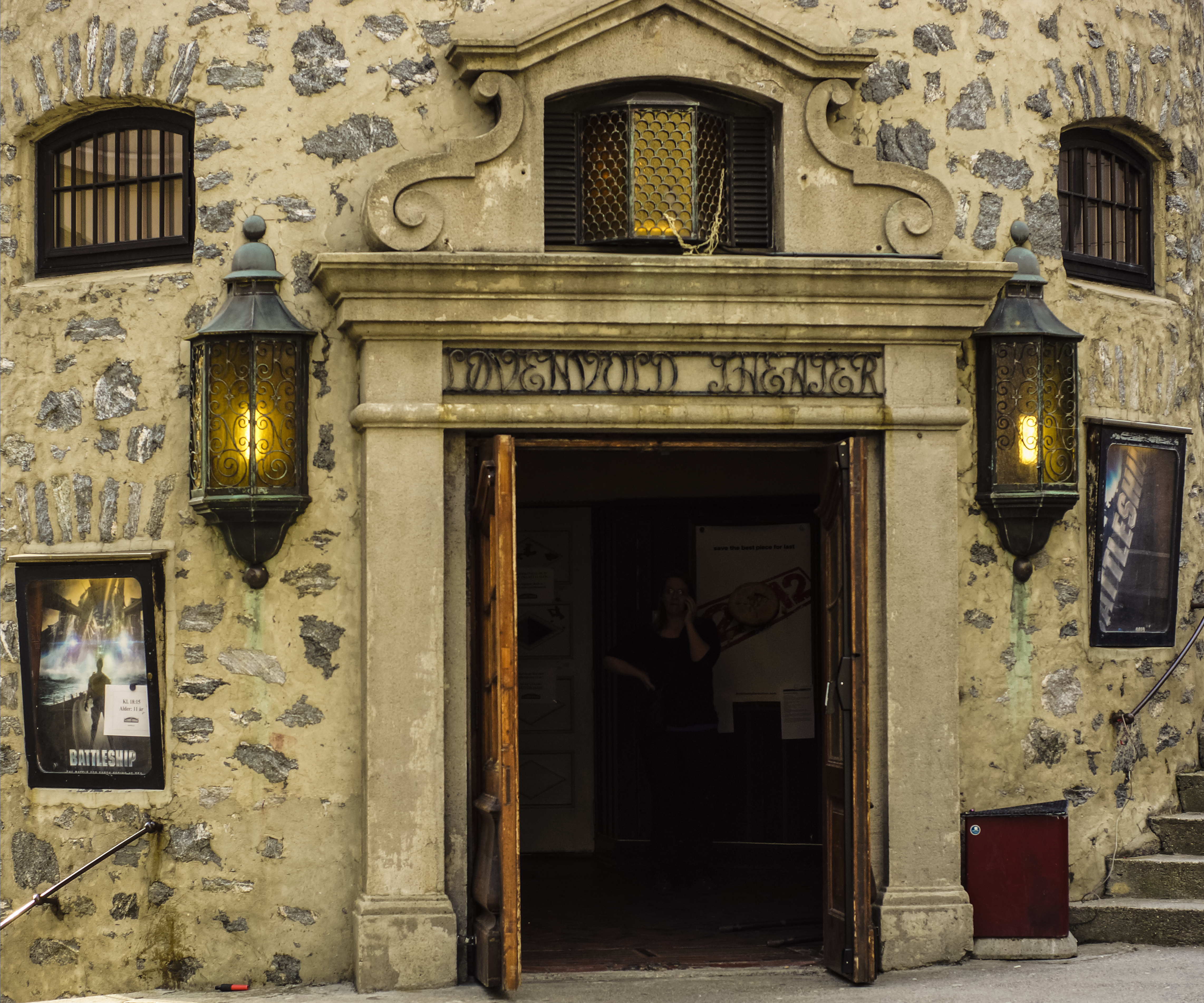 Løvenvold cinema in Ålesund, Norway. Architect Øyvind Grimnes